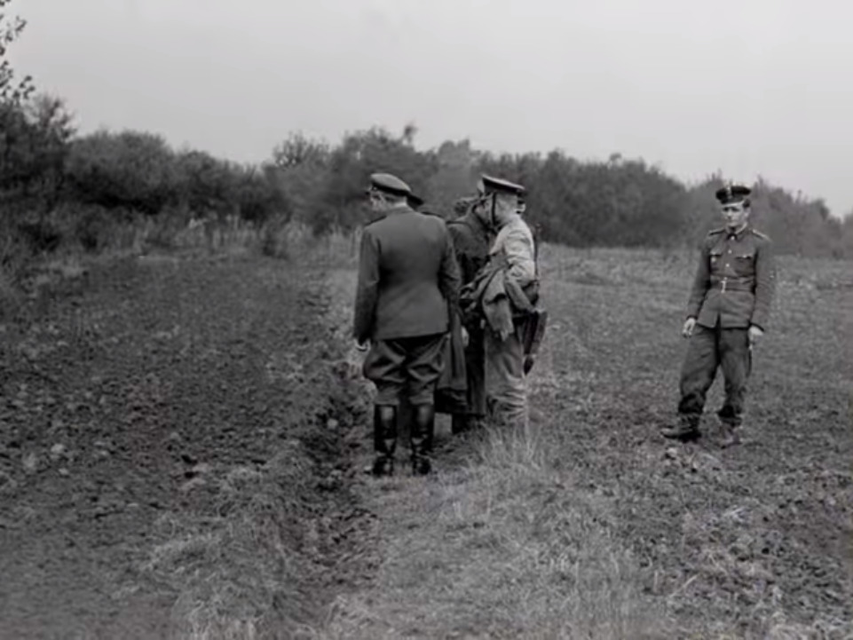 Border Protection Forces in Pokrzywna.